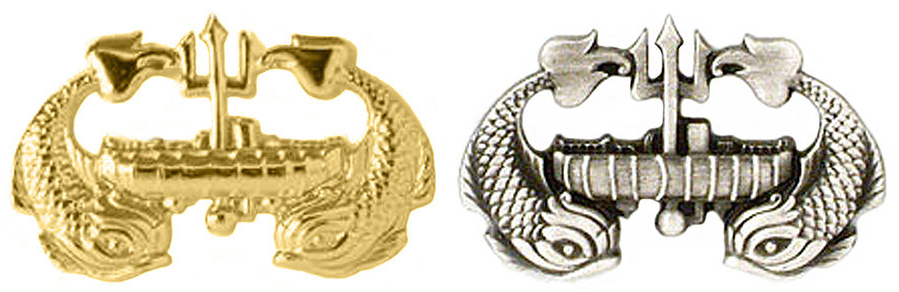 Deep Submergence Badges